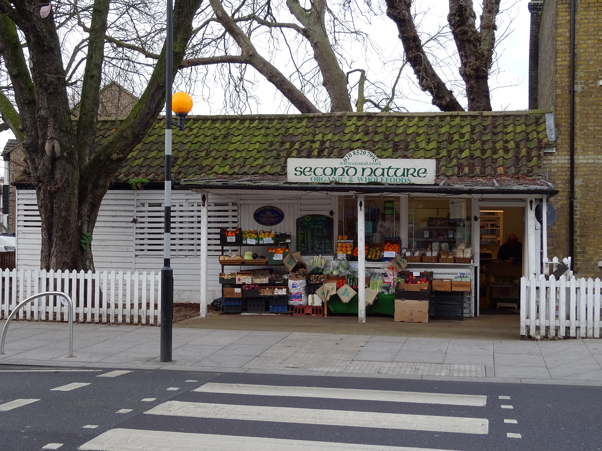 Jones's Butchers Shop. Grade II Listed building. Timber framed & weatherboarded former village butchers shop, probably late 18th C. The business was established by the Jones family in 1790 and survived until the 1970's